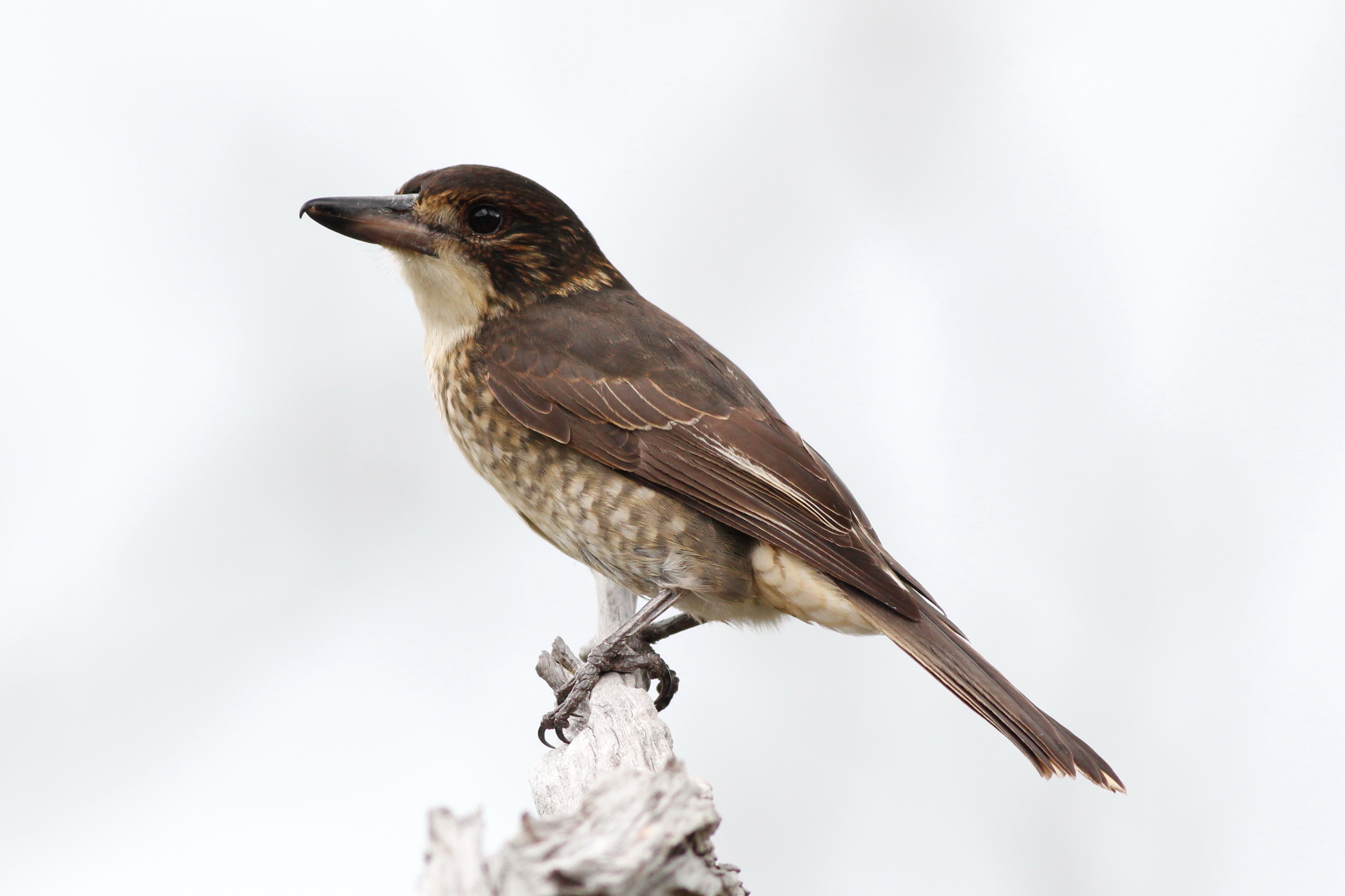 A juvenile Grey Butcherbird in Braeside Park, Melbourne, Victoria, Australia.